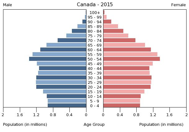 A population pyramid illustrates the age and sex structure of population and may provide insights about political and social stability, as well as economic development. The population is distributed along the horizontal axis, with males shown on the left and females on the right. The male and female populations are broken down into 5-year age groups represented as horizontal bars along the vertical axis, with the youngest age groups at the bottom and the oldest at the top. The shape of the population pyramid gradually evolves over time based on fertility, mortality, and international migration trends.